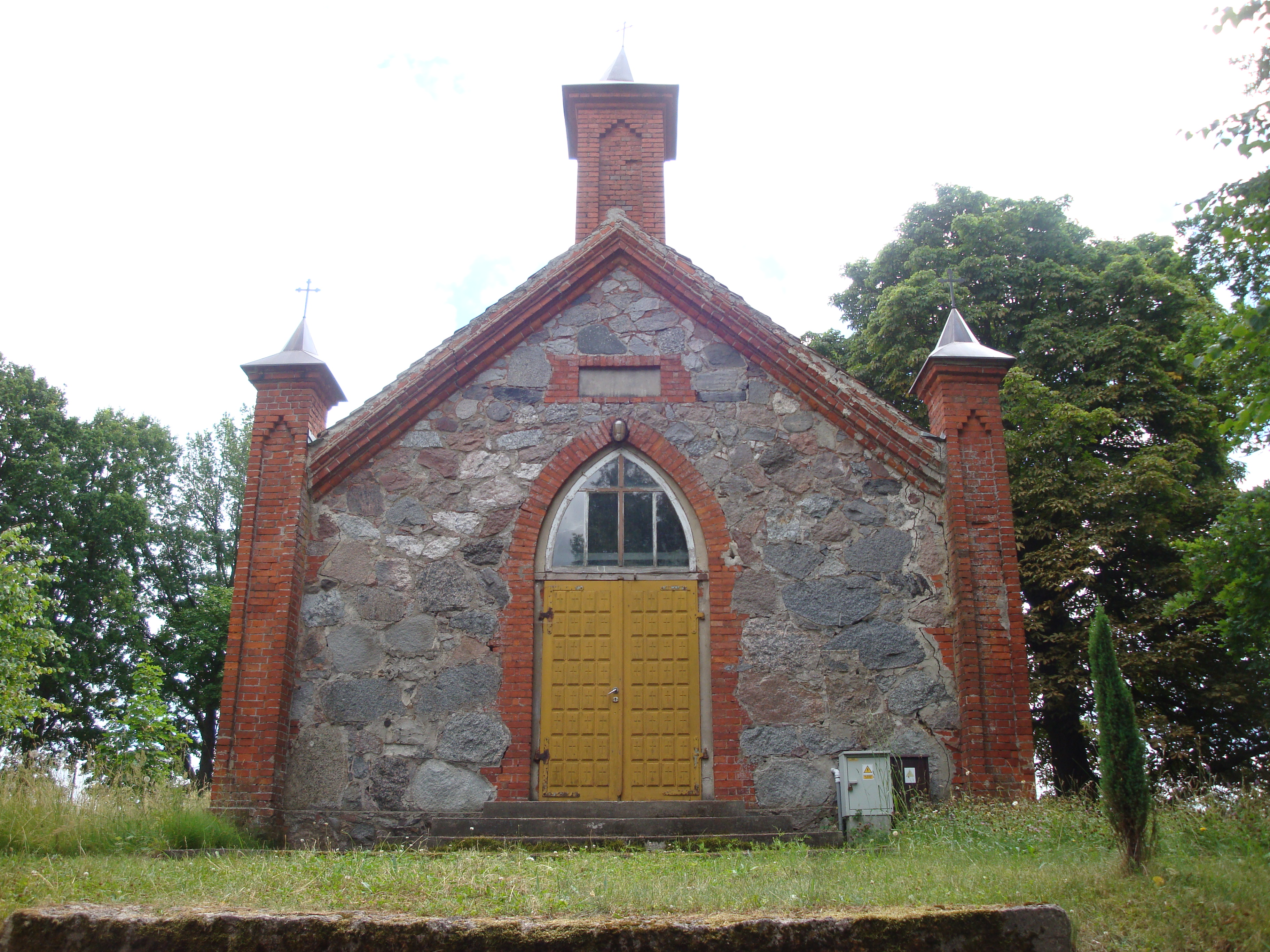 Redkowice-village in Pomeranian Voivodeship, Poland. Old chapel (19th century), unused